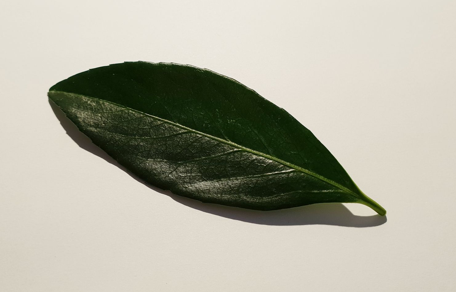 Cherry laurel caucasica leaves (Prunus laurocerasus)